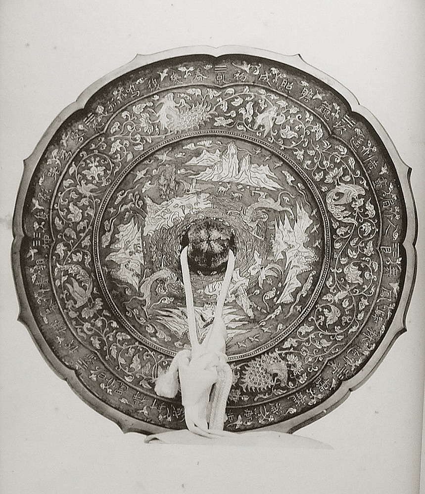 EIGHT-LOBED BRONZE MIRROR (SOUTH70-1) gold and silber back. landscape, figures, birds,animals, and Eight I-CHING symbols pattern. a poem is incised.